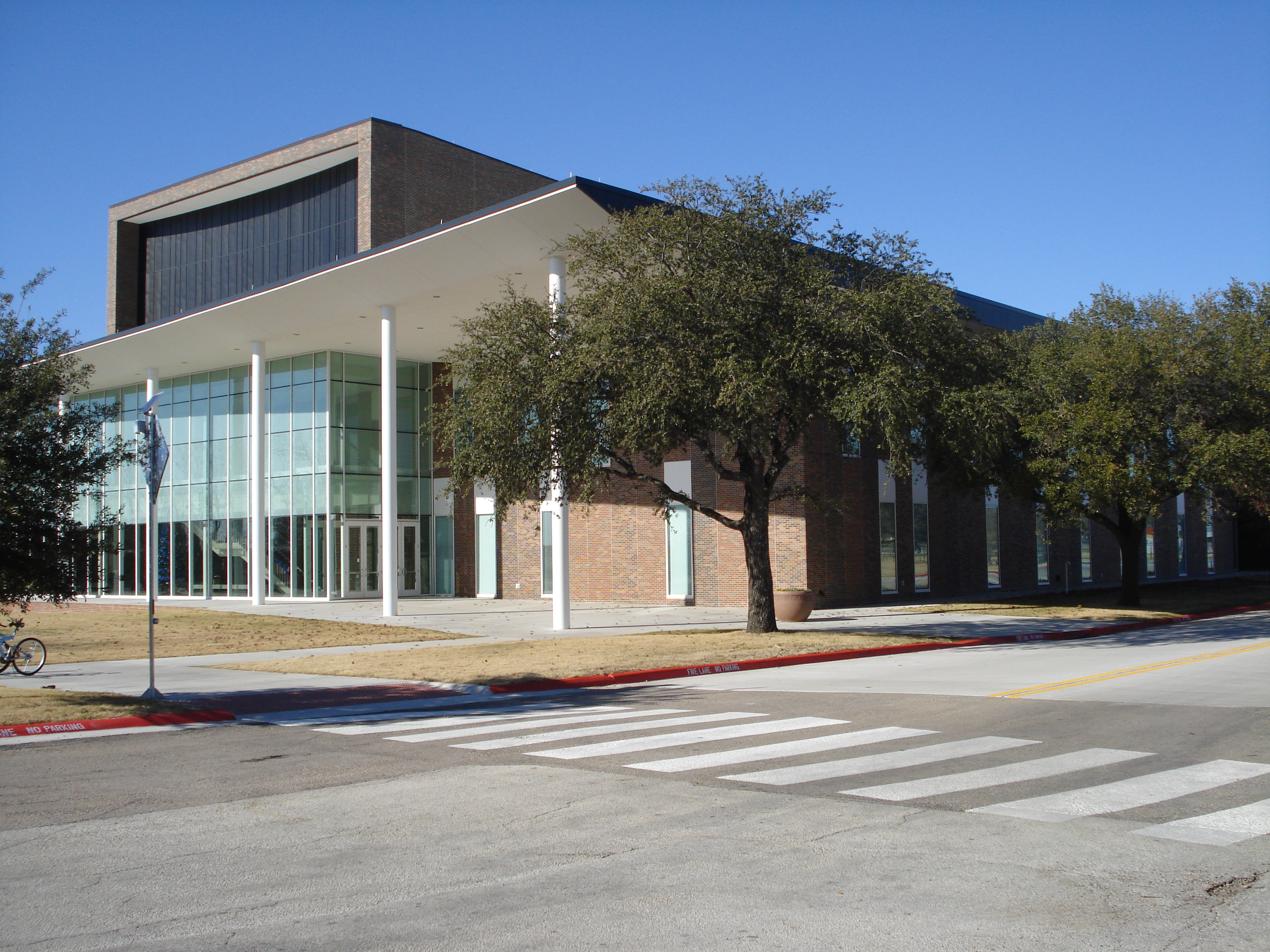 A picture of the main entrance to the completed 'new music building' on the campus of Texas A&M University - Commerce.